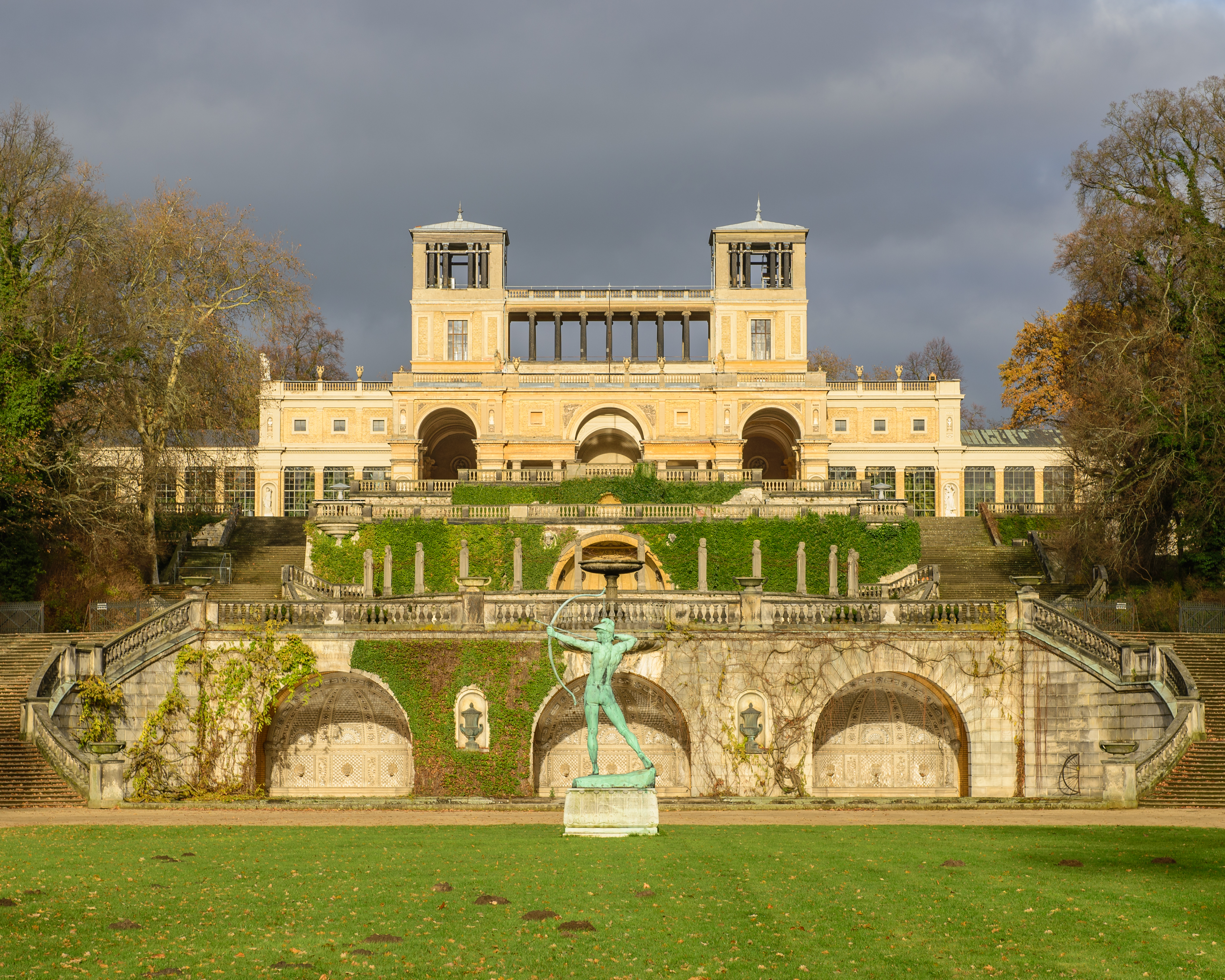 The Orangery Palace, Potsdam.